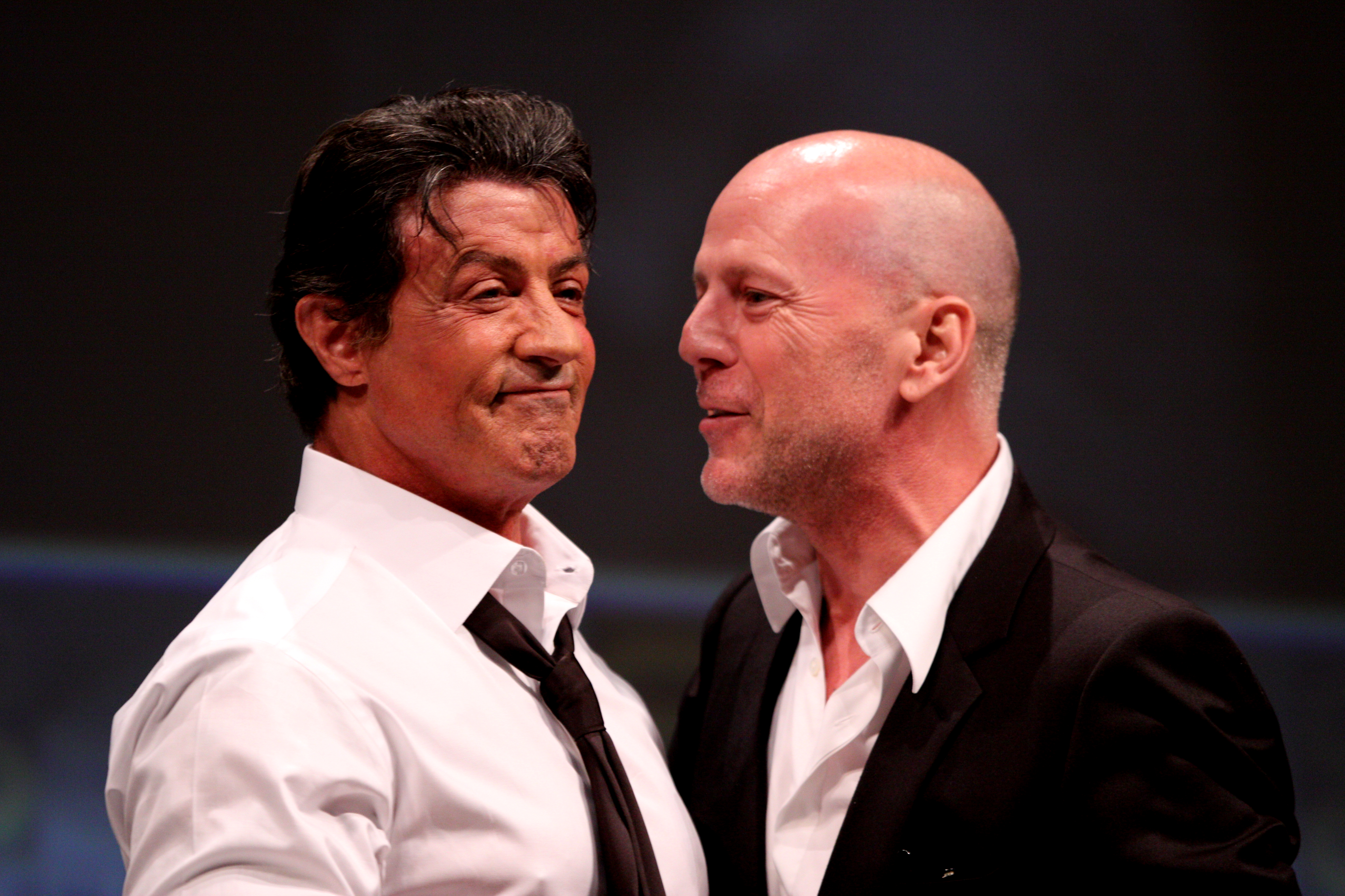 Actors Sylvester Stallone and Bruce Willis on the Expendables panel at the 2010 San Diego Comic Con in San Diego, California.